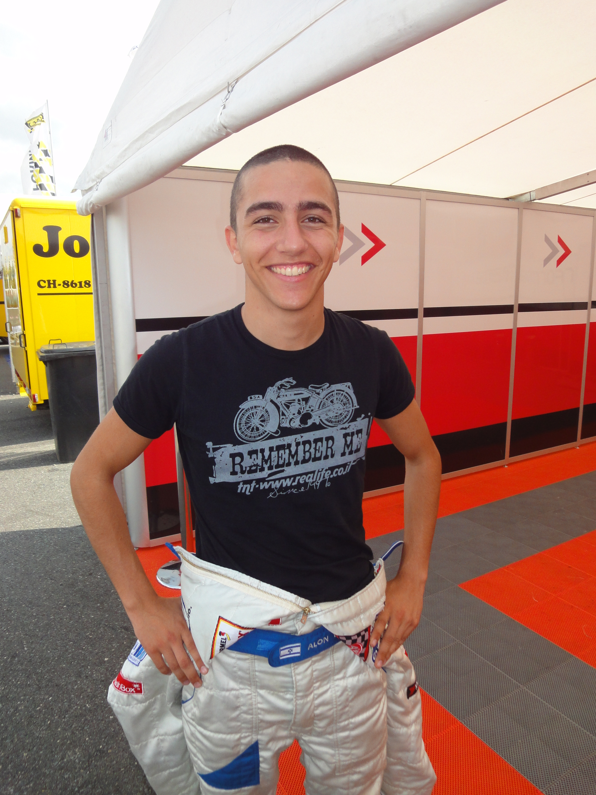 Alon Day: the photo was taken during 2010's ADAC GT Masters race weekend at Hockenheim